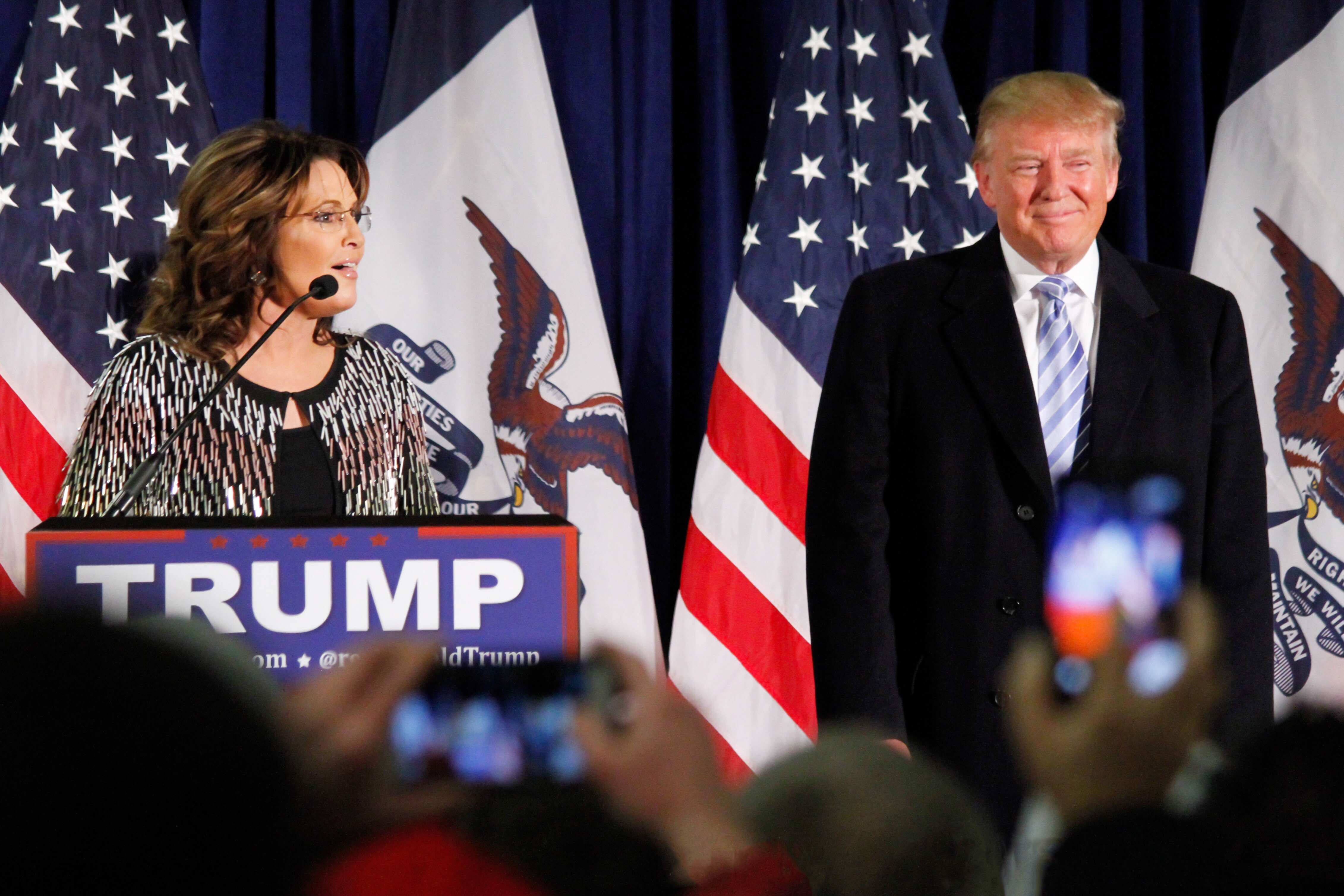 Republican presidential hopeful Donald Trump speaks in front of a crowd on Jan. 19, 2016 at the Hansen Agriculture Student Learning Center. At the rally, not only did Trump talk about economic and healthcare reforms, but as was also endorsed by former governor of Alaska, Sarah Palin. ISD™ IOWA STATE DAILY® Photo by Max Goldberg